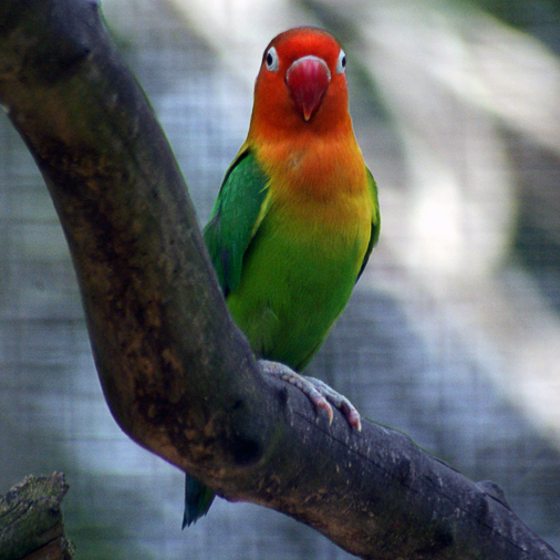 Fischer's Lovebird at Zoo Negara, Malaysia.